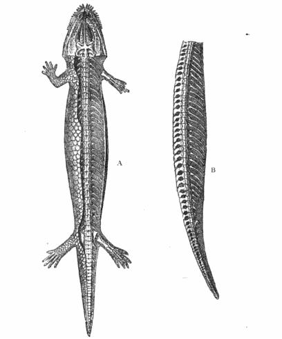 Illustration of Seeleya pusilla (=Hyloplesion longicostatum) by Antonin Fritsch. A. Under surface with scutes removed on the left side. B. Right lateral view of the skeleton of the caudal region. Printed in A manual of palaeontology for the use of students, with a general introduction on the principles of palaeontology (Vol. II) by Henry Alleyne Nicholson and Richard Lydekker (1889). Originally from "Fauna der Gaskohle und der Kalksteine der Perm formation Bohmens" by Antonin Fritsch (1886).